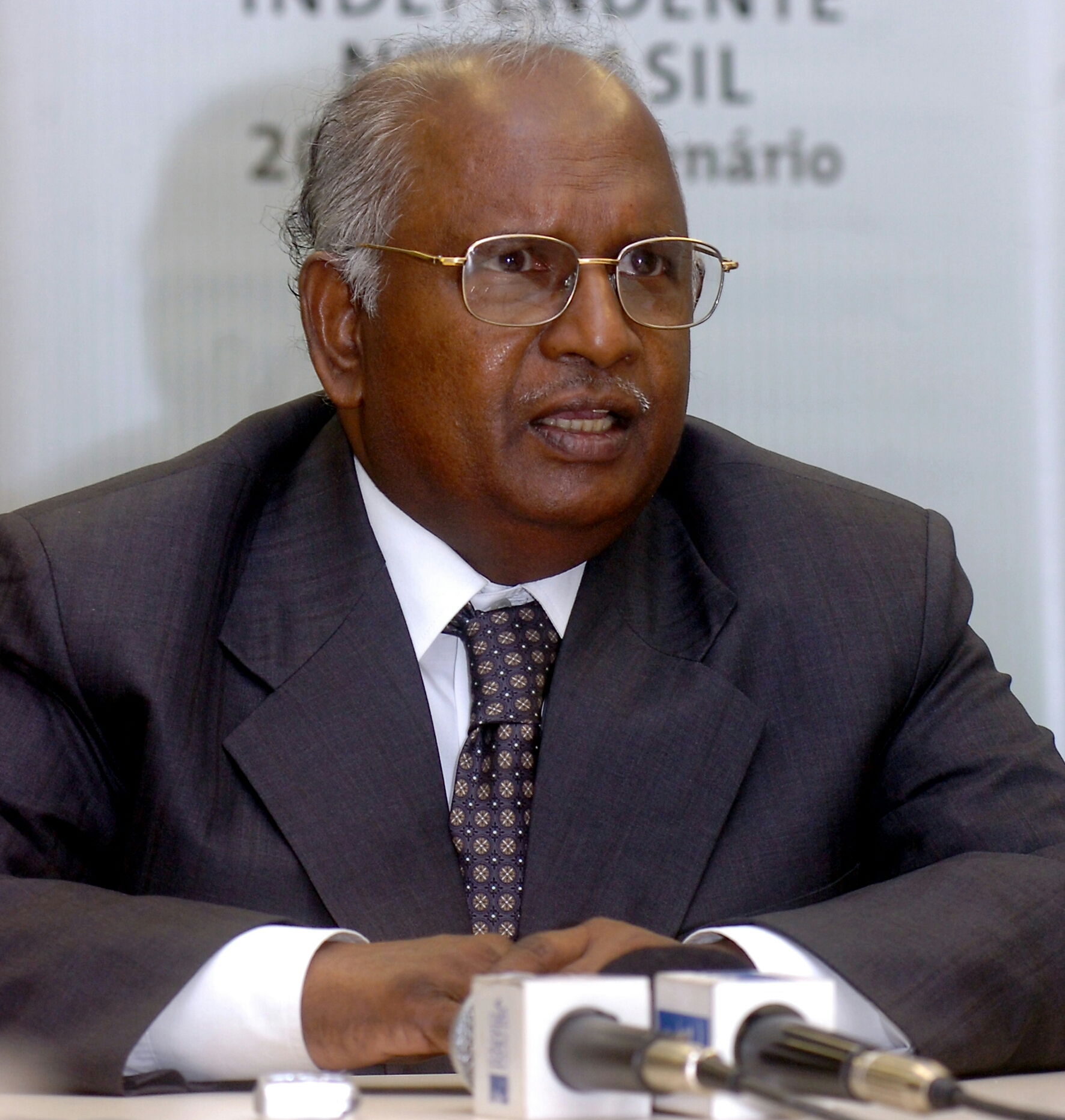 Konakuppakatil Gopinathan Balakrishnan, Chief Justice of India, during an official visit in Brasília, Brazil.